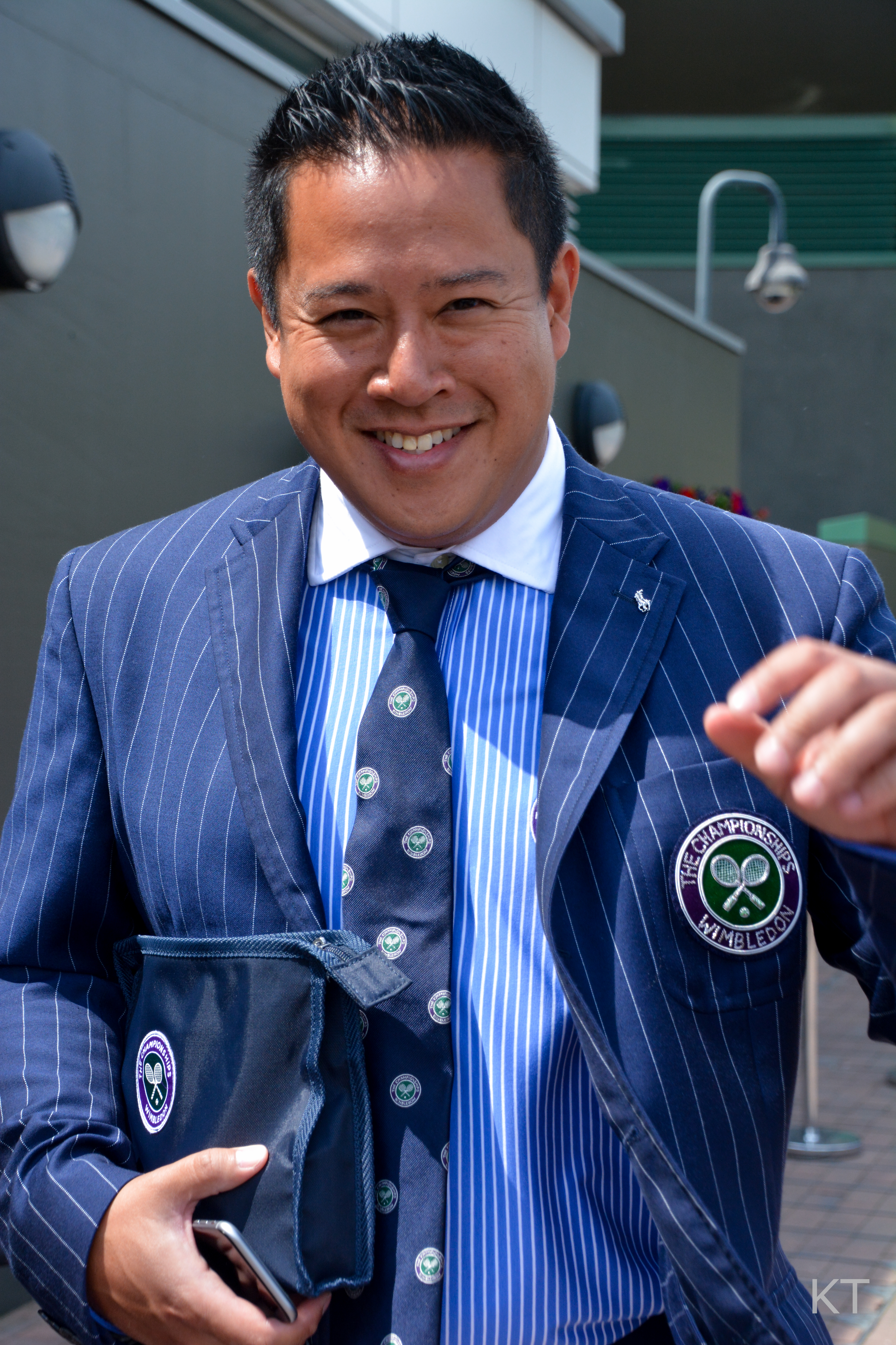 Middle Sunday of Wimbledon 2016.